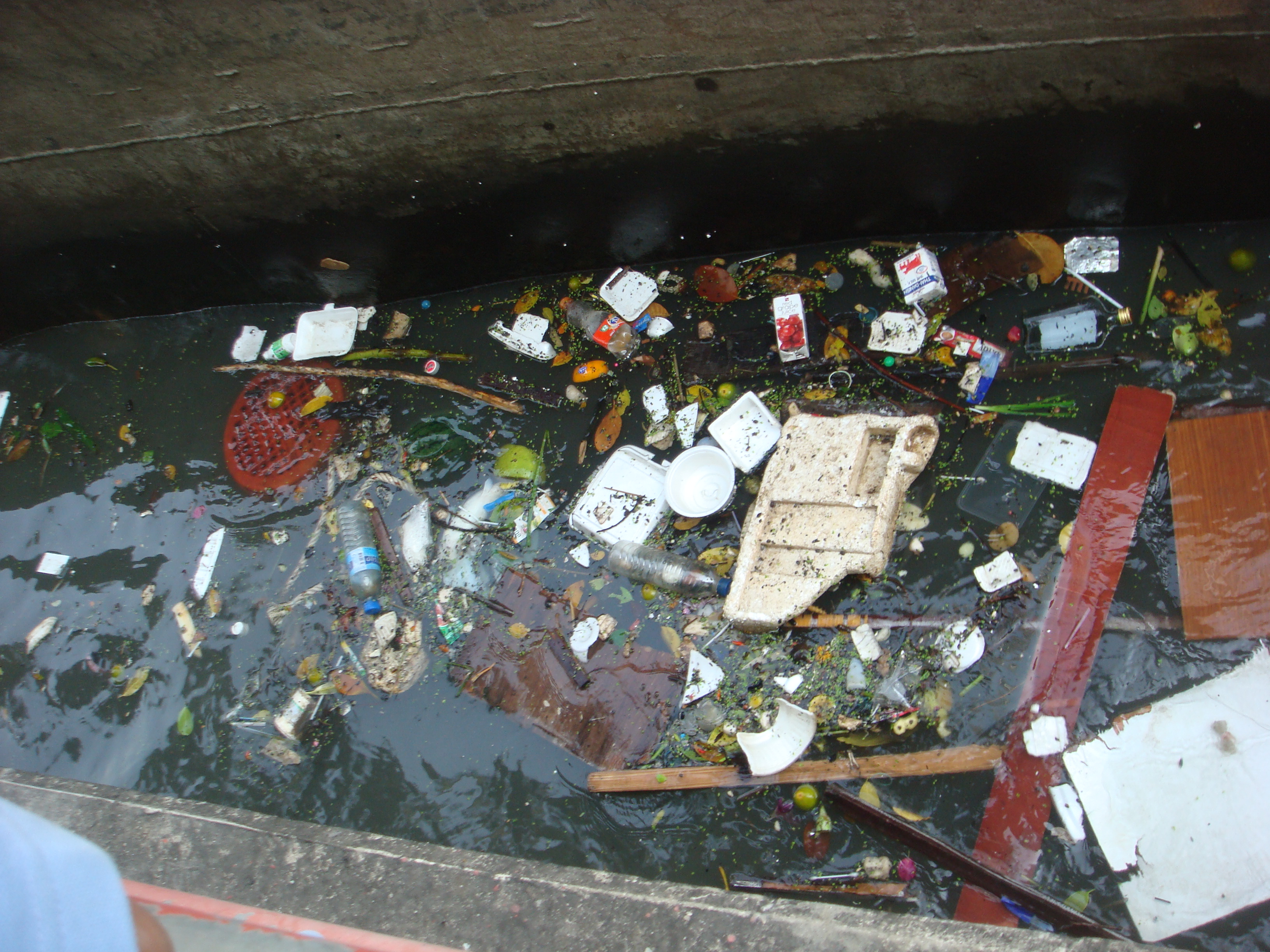 The amount of packaging waste that is polluting our water systems that can be preventable if it were to be recycled. Packaging waste includes plastic bottles, cardboard boxes, grocery bags, plastic food containers, and etc. This would eventually go into the ocean and impact the marine environment by pollution, destroying the reefs, and harming marine life.